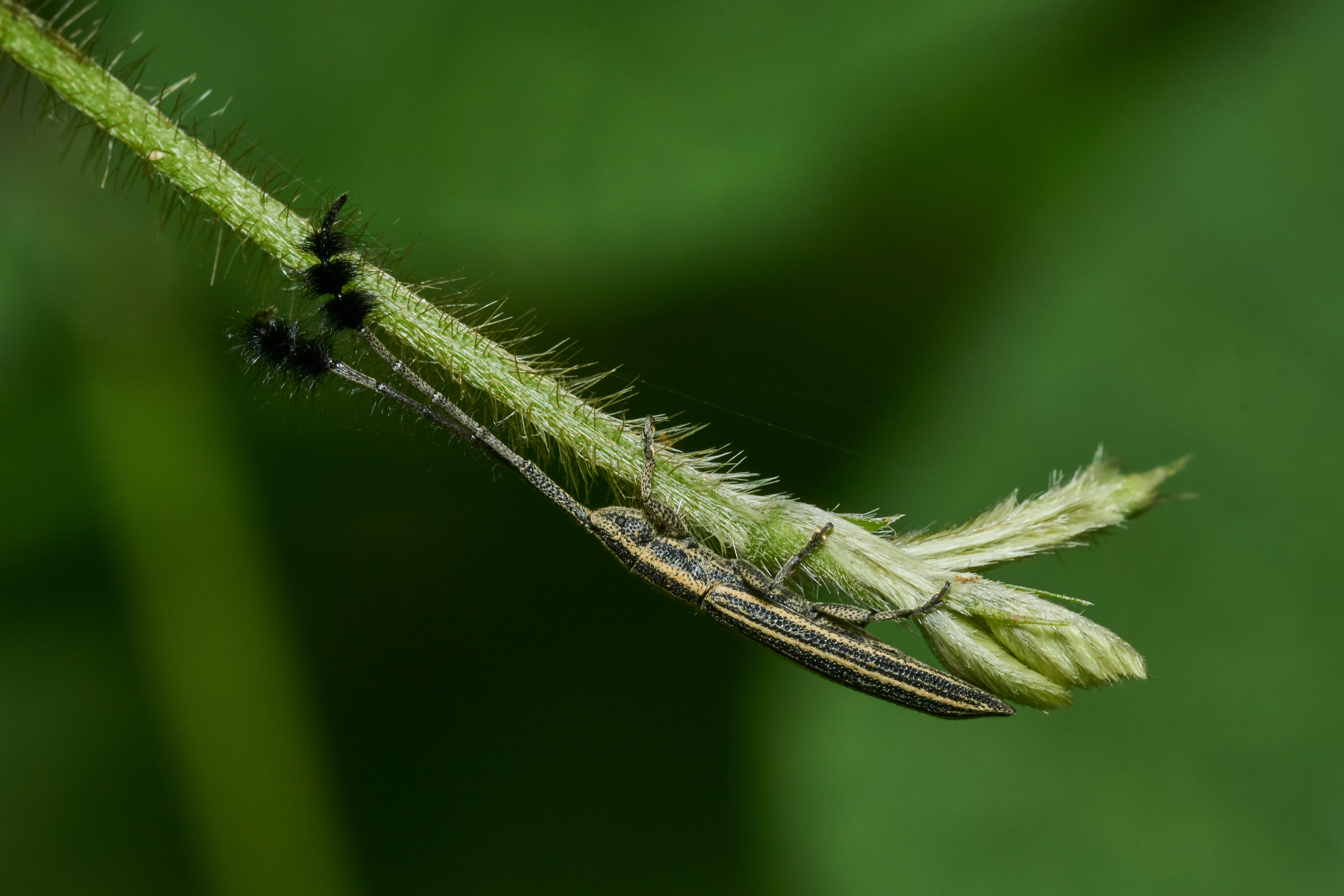 Eucomatocera vittata is a species of beetle in the family Cerambycidae, Longhorn beetle. Its a stemborer; here it is enjoying the sap of Pueraria phaseoloides.